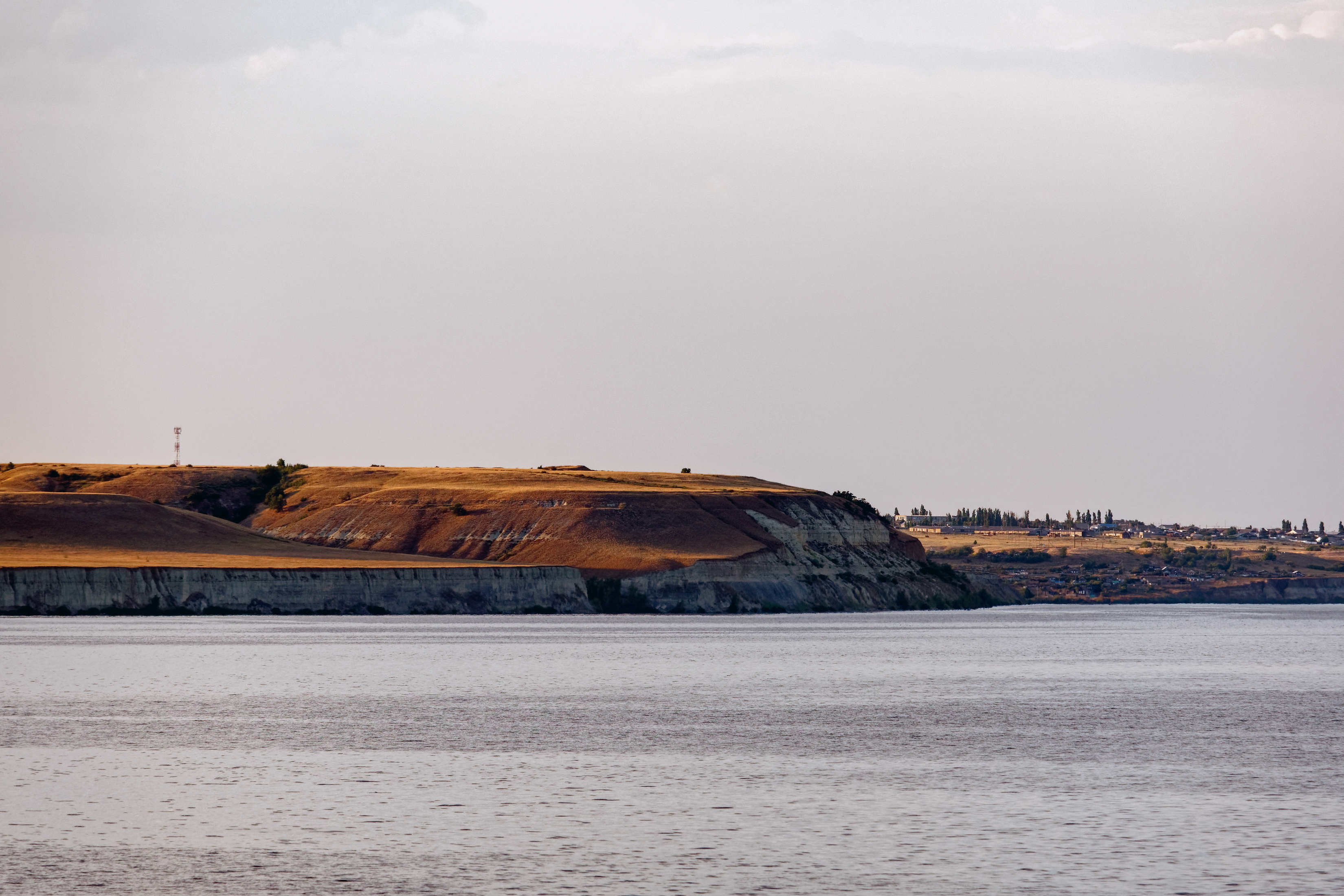 Volga river